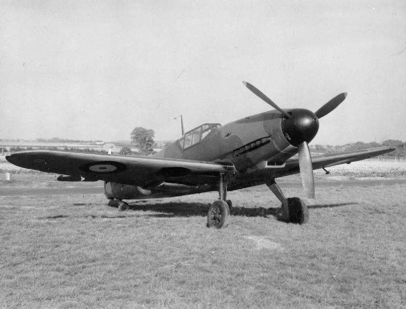 A captured German Messerschmitt Me 109F-2 (RAF serial ES906) in RAF day-fighter camouflage, on the ground at RAF Duxford while being operated by the Air Fighting Development Unit, October 1941. The aircraft had force-landed near Dover by the commander of I/JG 26, Major Rolf Peter Pingel.